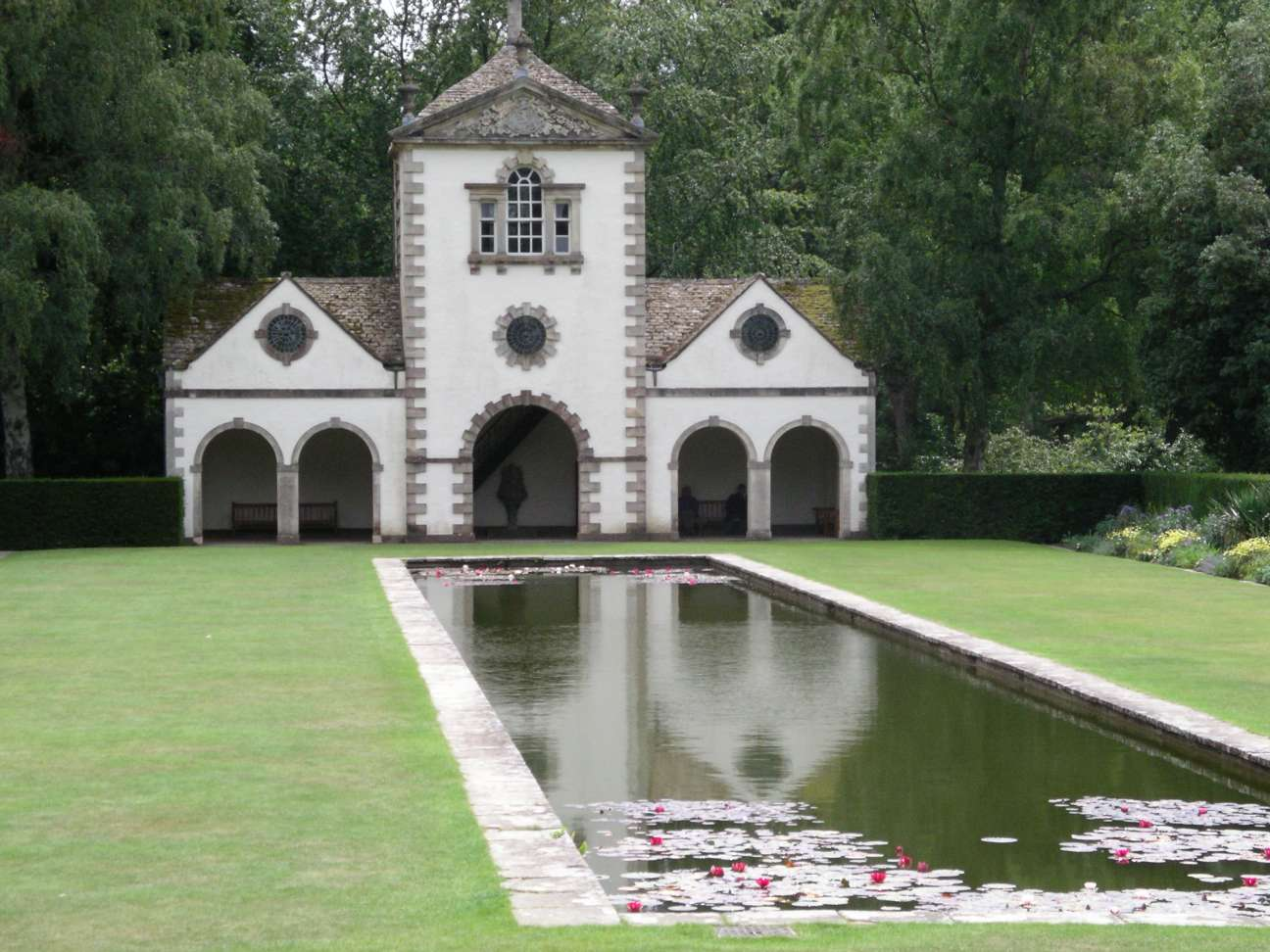 The Pin mill and ornamental fish pond at Bodnant Garden Author: User:Velela. Location: Bodnant Garden, near Conwy Source: Personal photograph taken by Author Technical data: Pentax Optio555 digital camera.